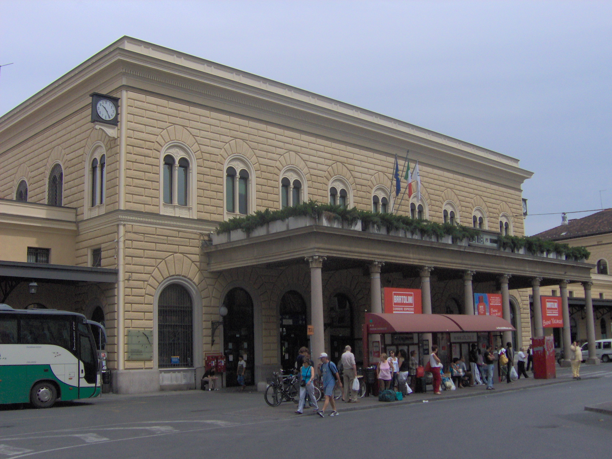 Train station of Bologna